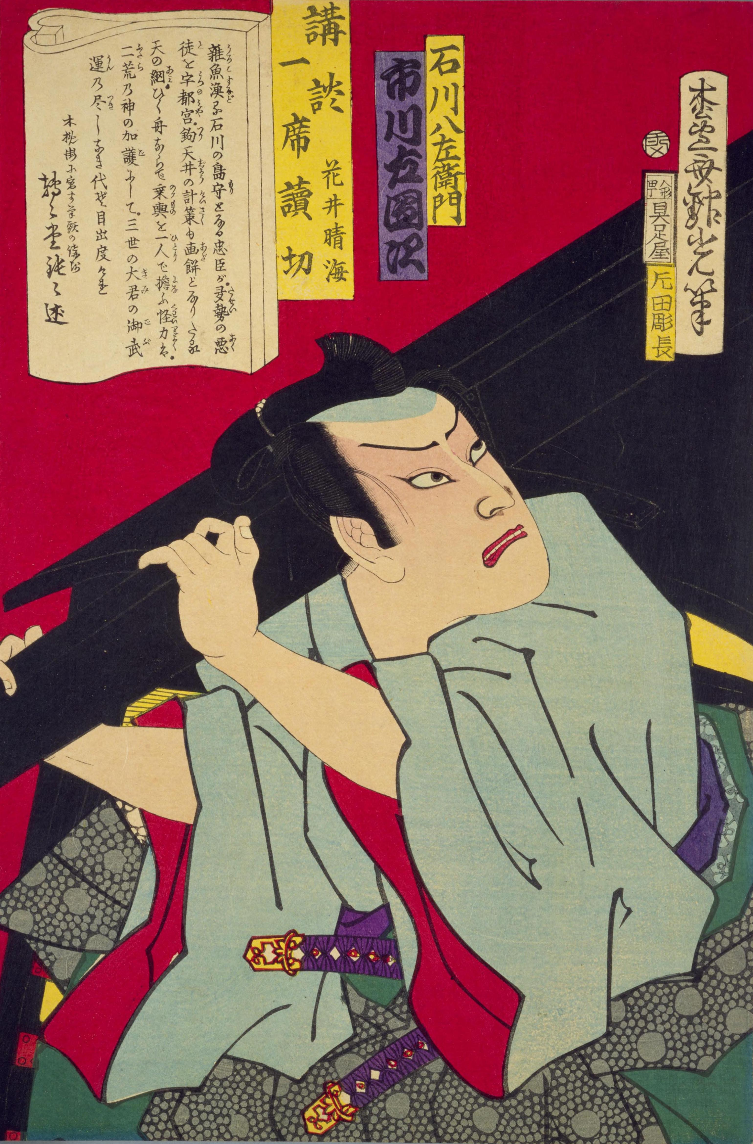 Ukiyo-e colour woodblock print by Adachi Ginkō, signed Shōsetsusai Ginkō (松雪斎 銀光), from the series Complete Issue of Top Battle Stories (講談一席読切 Kōdan isseki yomikiri) Cropped from File:Adachi Ginkō (1874) Ichikawa Hachiēmon Ichikawa Sadanji